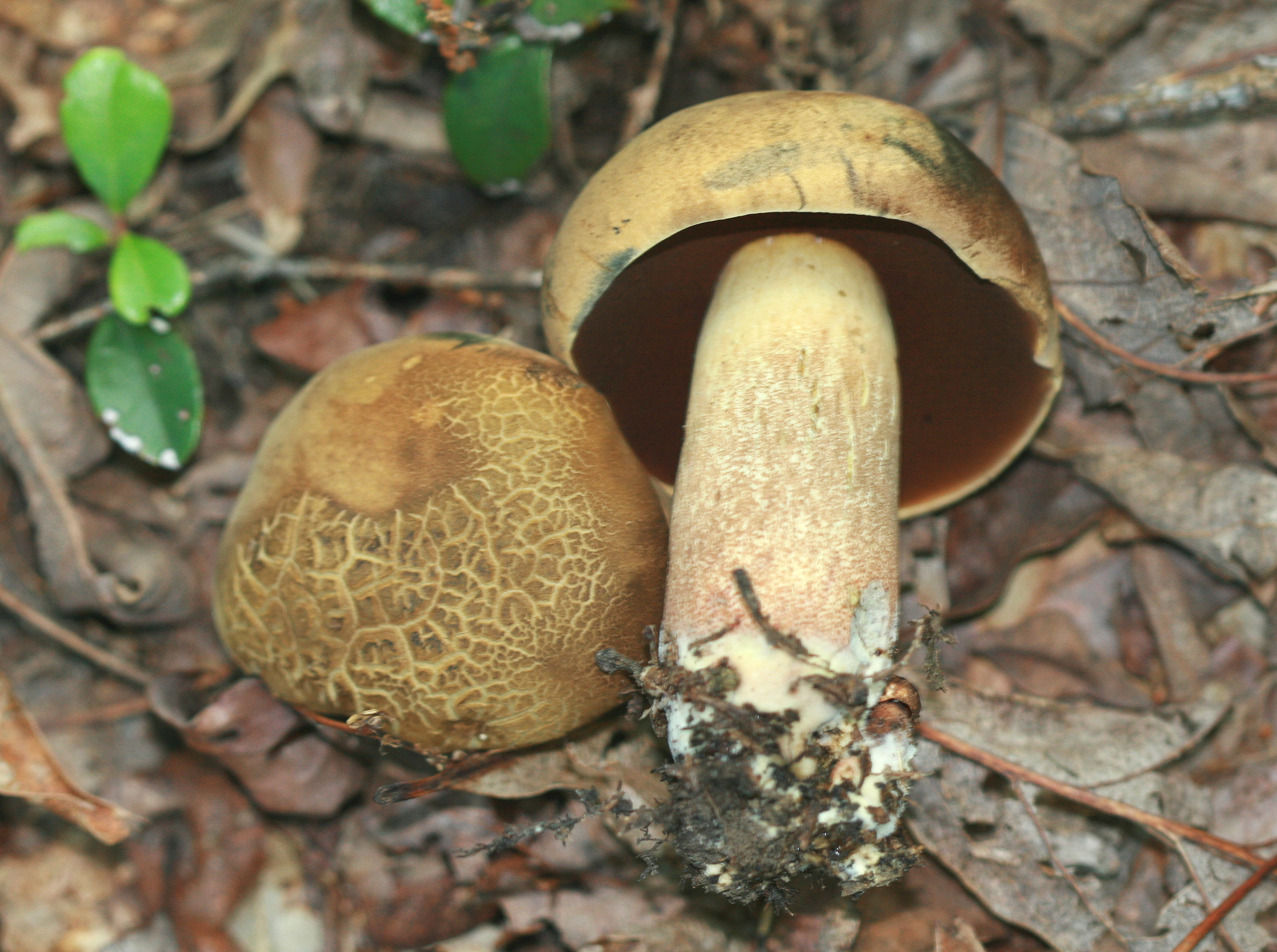 Boletus vermiculosoides A.H. Sm. & Thiers Location: Blacksburg, Virginia, USA Observation Notes: A boletus of some kind found in mixed Oak/Hickory forest.[admin – Sat Aug 14 01:58:38 0000 2010]: Changed location name from ‘Blacksburg, Virginia, U.S.A.’ to ‘Blacksburg, Virginia, USA’ For more information about this, see the observation page at Mushroom Observer.